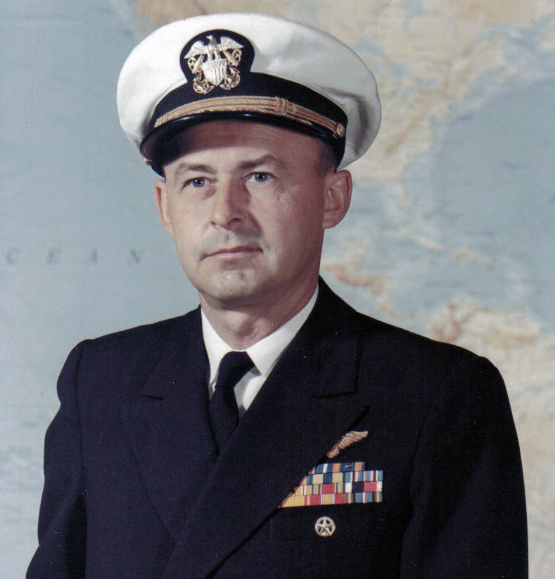 Official U.S. Navy photograph of CAPT William B. Ecker. U.S. Naval Photographic Center file number 382563.